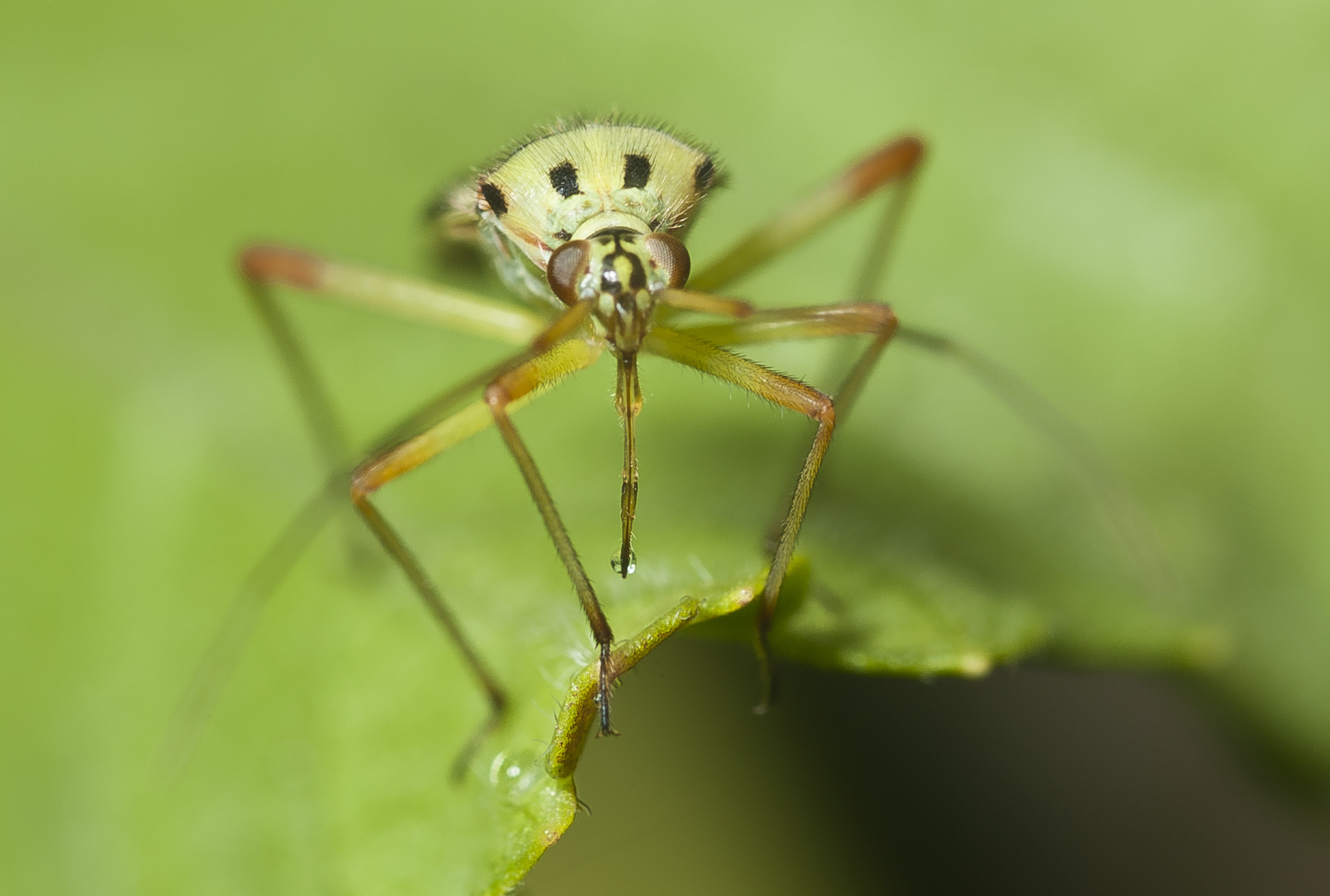 Mermitelocerus schmidtii, Stuttgart, Germany. Thanks to the members of Entomologie.de for the identification.